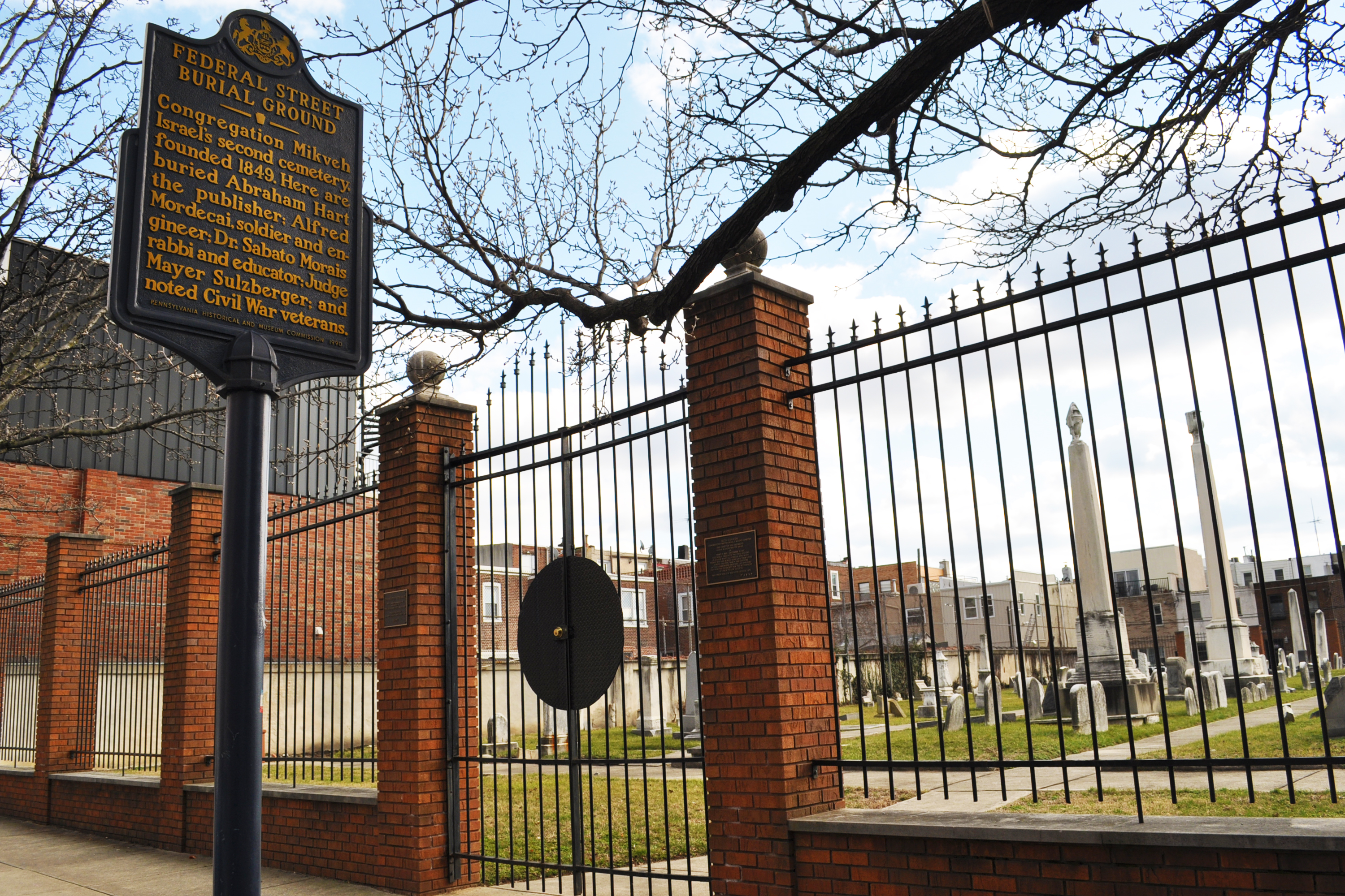 Federal Street Burial Ground. Congregation Mikveh Israel's second cemetery, founded 1849. Here are buried Abraham Hart the publisher; Alfred Mordecai, soldier and engineer; Dr. Sabato Morais rabbi and educator; Judge Mayer Sulzberger; and noted Civil War veterans. (Federal Street Burial Ground Historical Marker at 1114 Federal St. Philadelphia PA - Pennsylvania Historical and Museum Commission 1990)